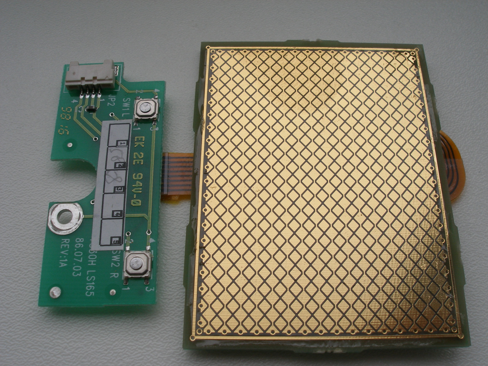 Dismounted touchpad